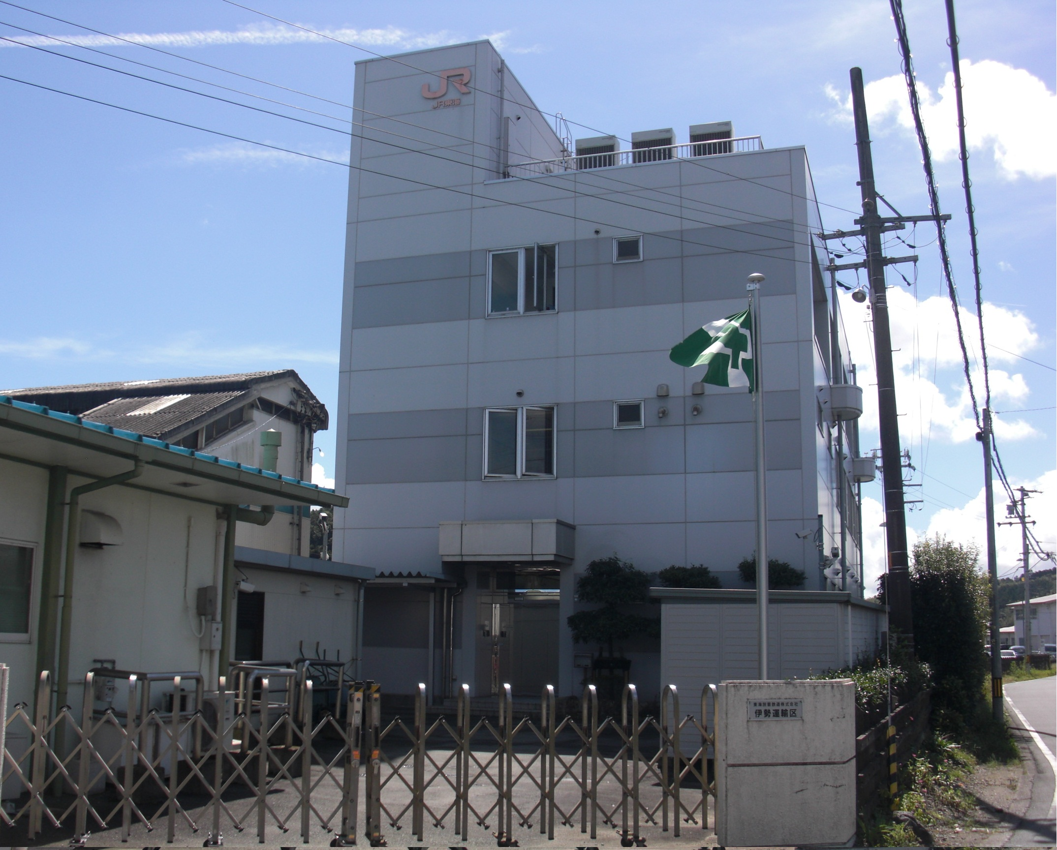 This building is in Taki, Mie, Japan.